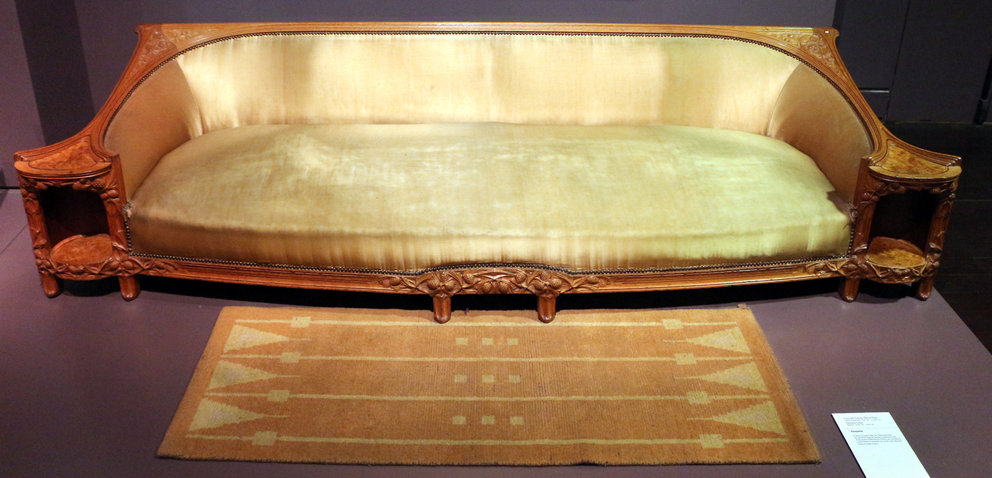 Decorative arts in the Musée d'Orsay